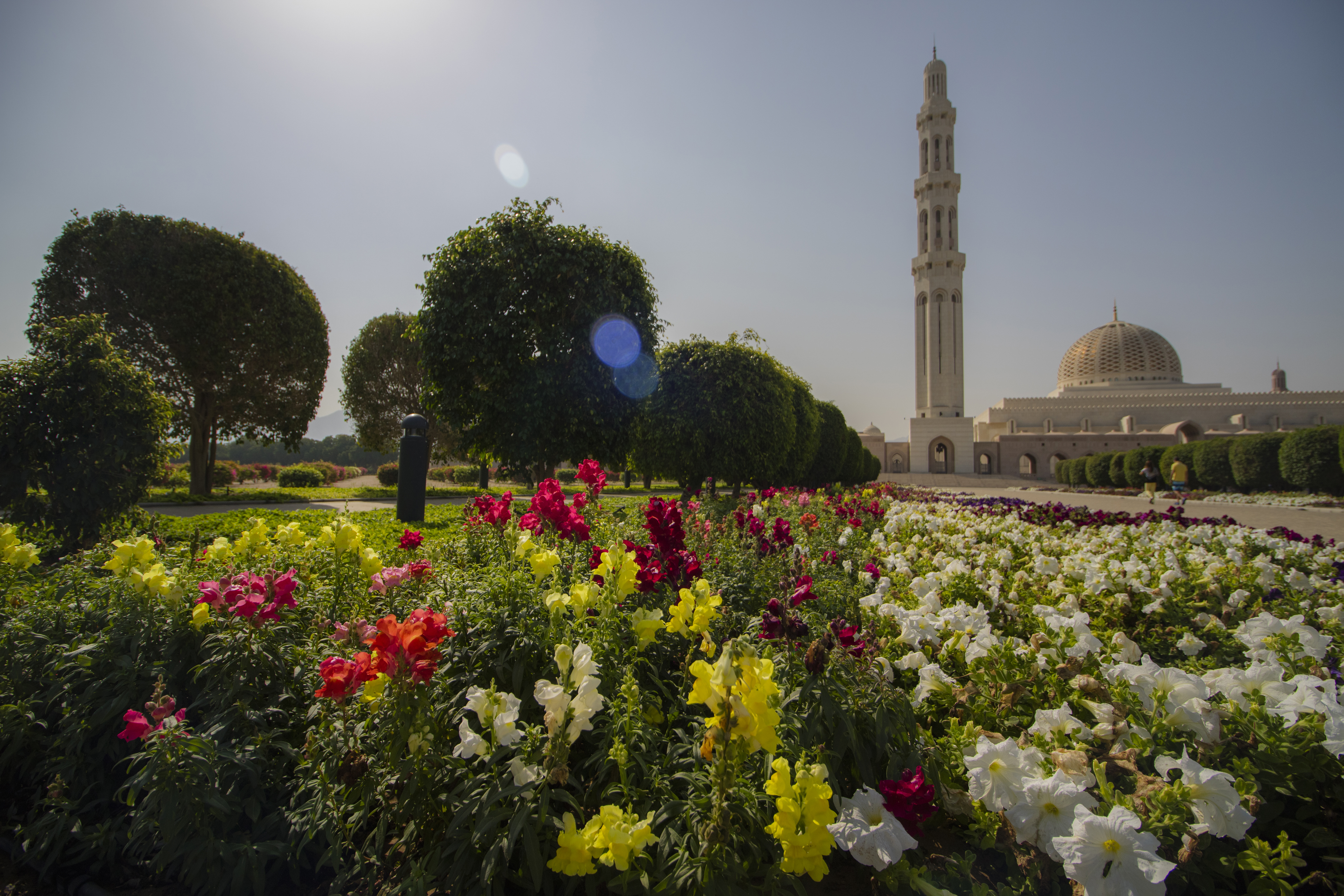 The Sultan Qaboos Grand Mosque is the main Mosque in the Sultanate of Oman. It is in the capital city of Muscat.